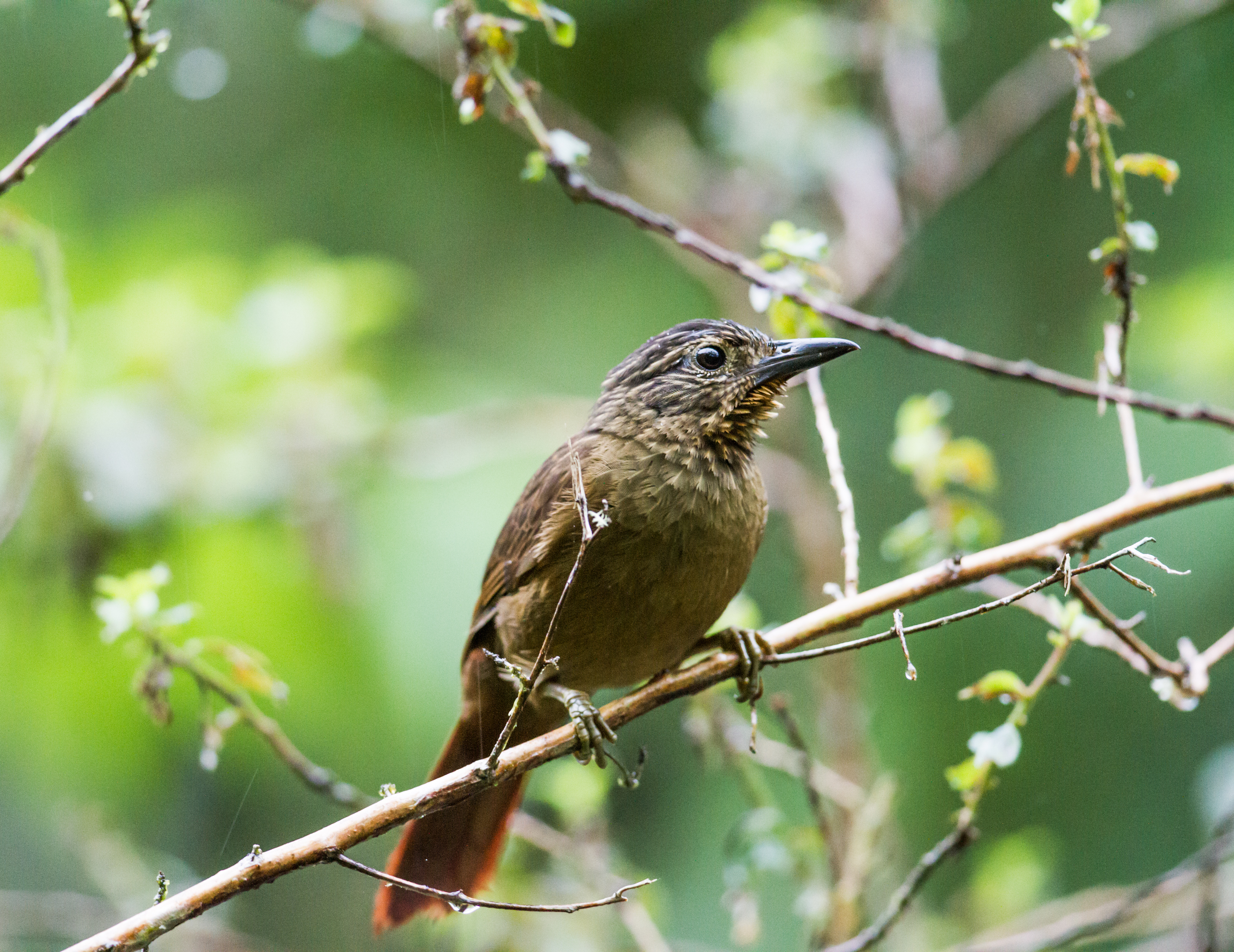 Black-billed Treehunter from WildSumaco Lodge - Napo - Ecuador.